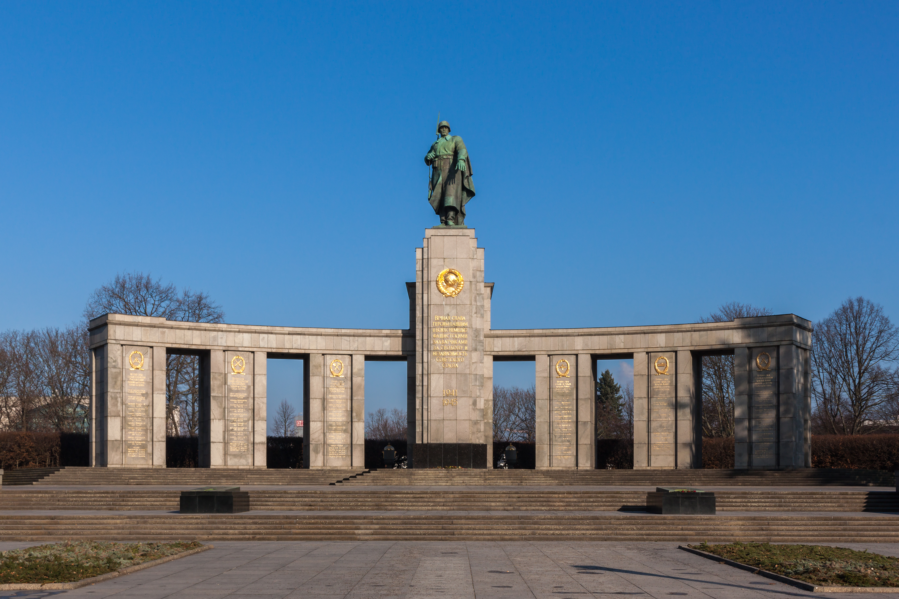 The Soviet War Memorial is located in Berlin's Tiergarten district on the Straße des 17. Juni. It was built in 1945 to honor the fallen soldiers of the Red Army in World War II.